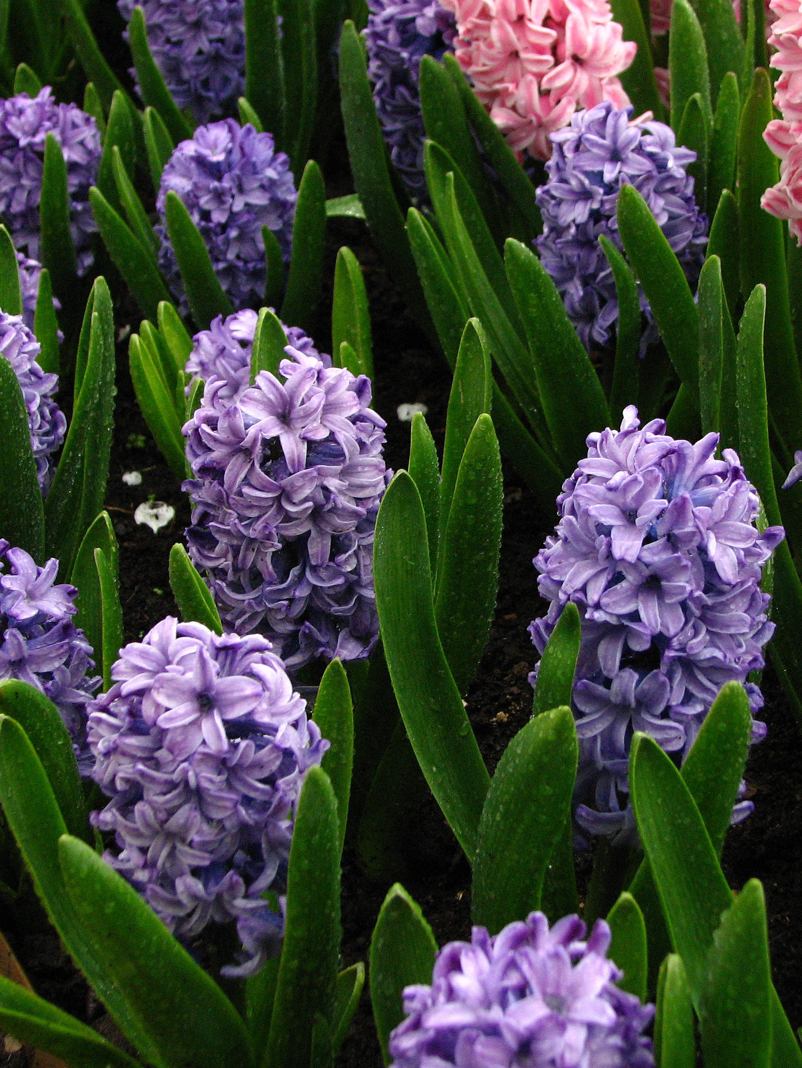 Flower beds in park Kolomenskoye (Moscow). Hyacinthus orientalis ‘Delft Blue’